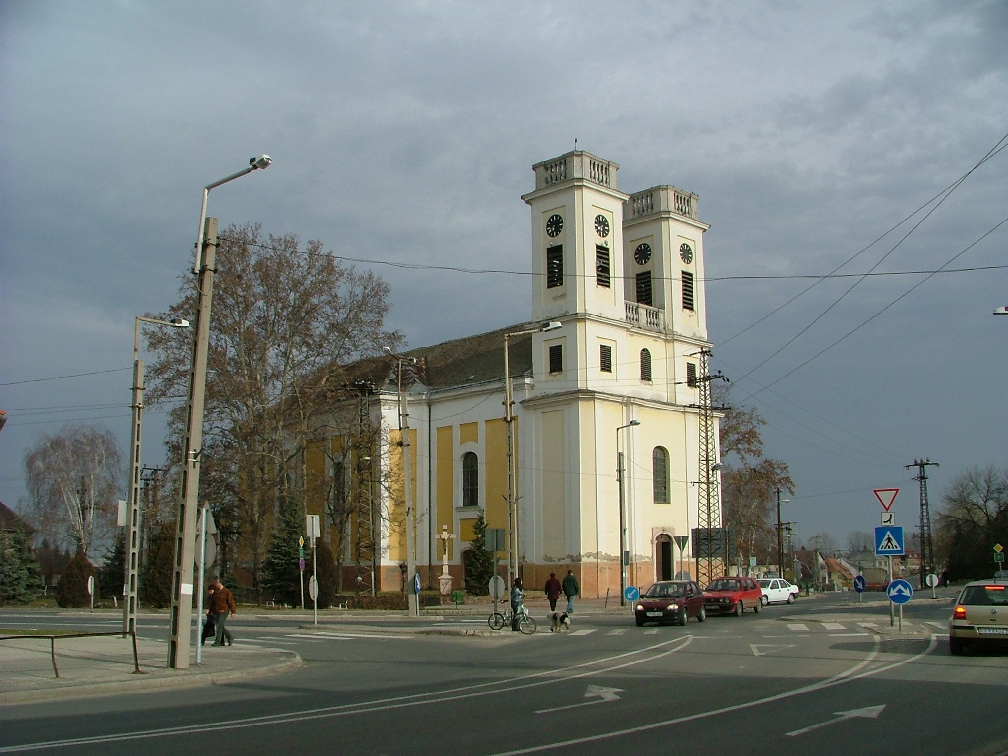 St Marys Roman Catholic Church in Kisbér This is a photo of a monument in Hungary. Identifier: 6285